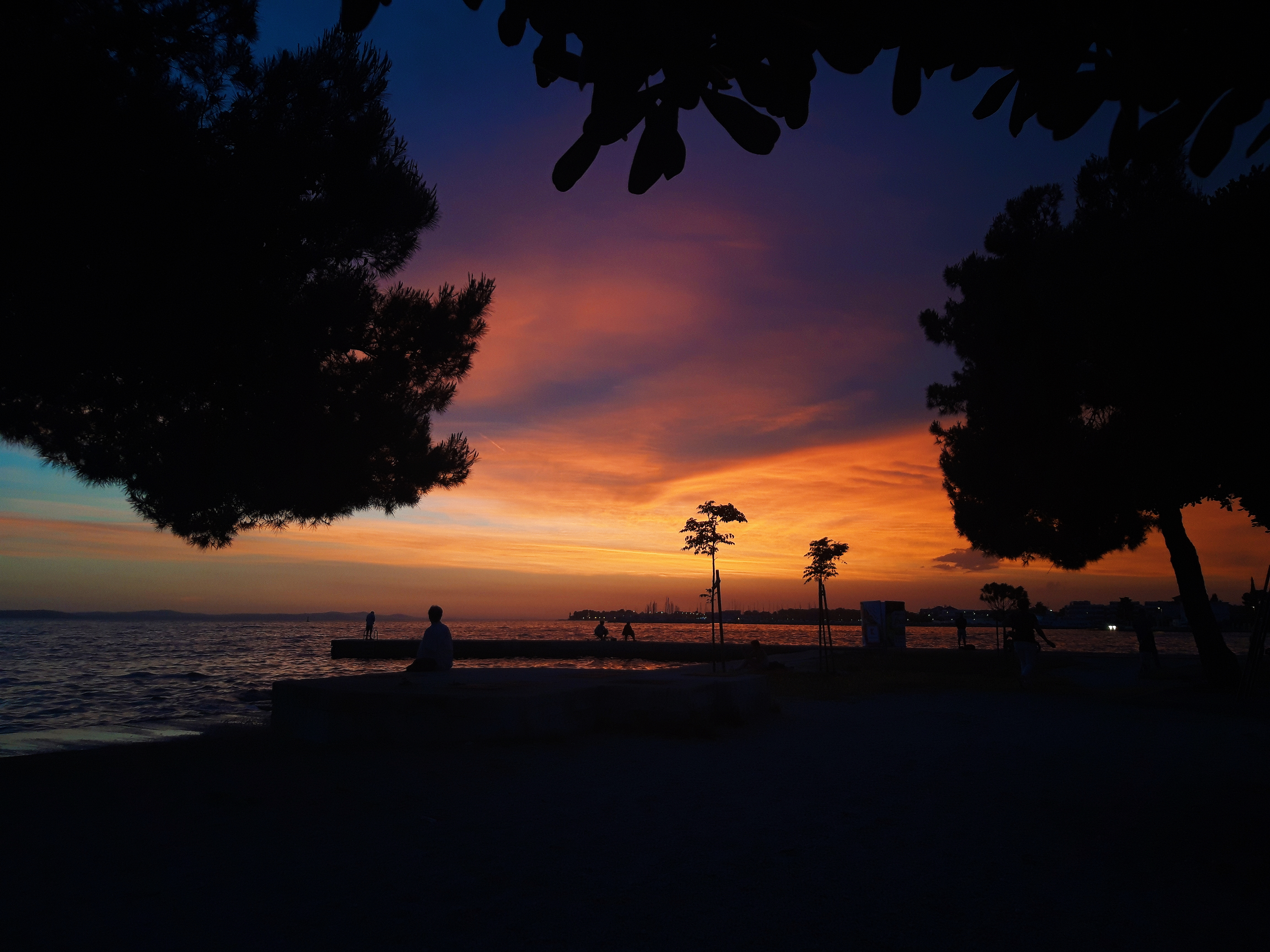 Sunset in Zadar- Borik; nearby a cafe bar Marex